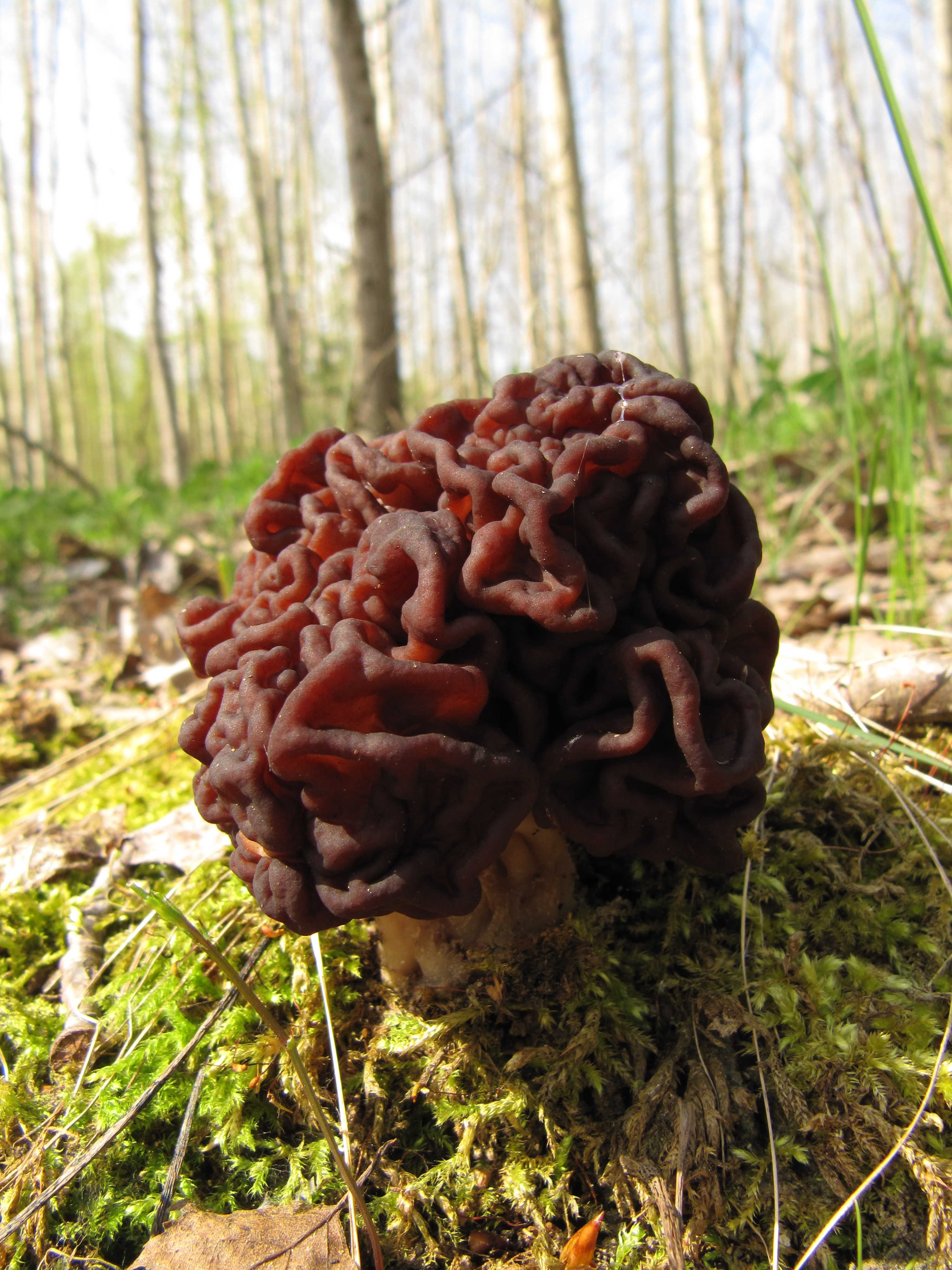 Gyromitra esculenta